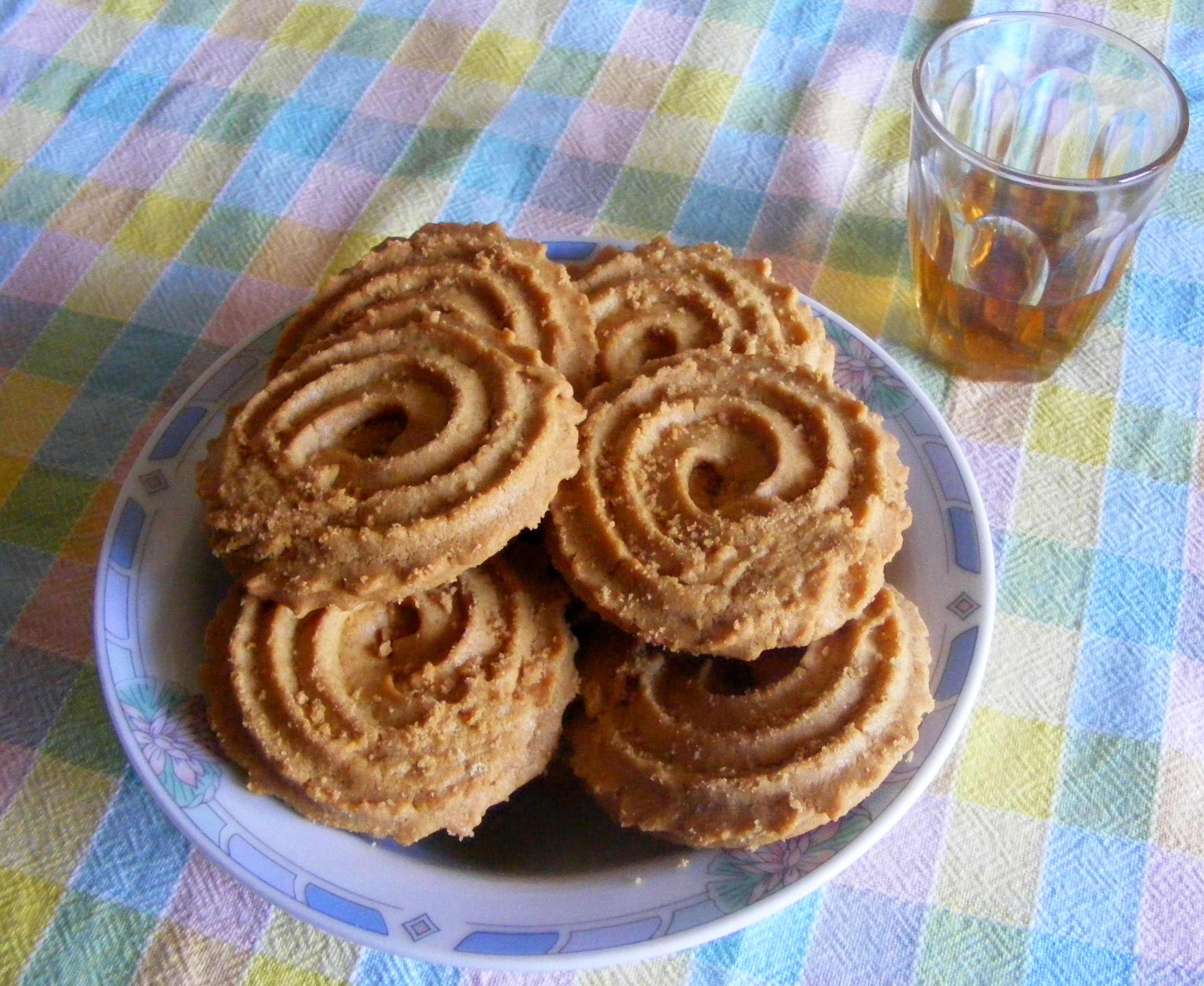 Paste di meliga (a traditional corn-based bisquit from Piedmont - Italy)